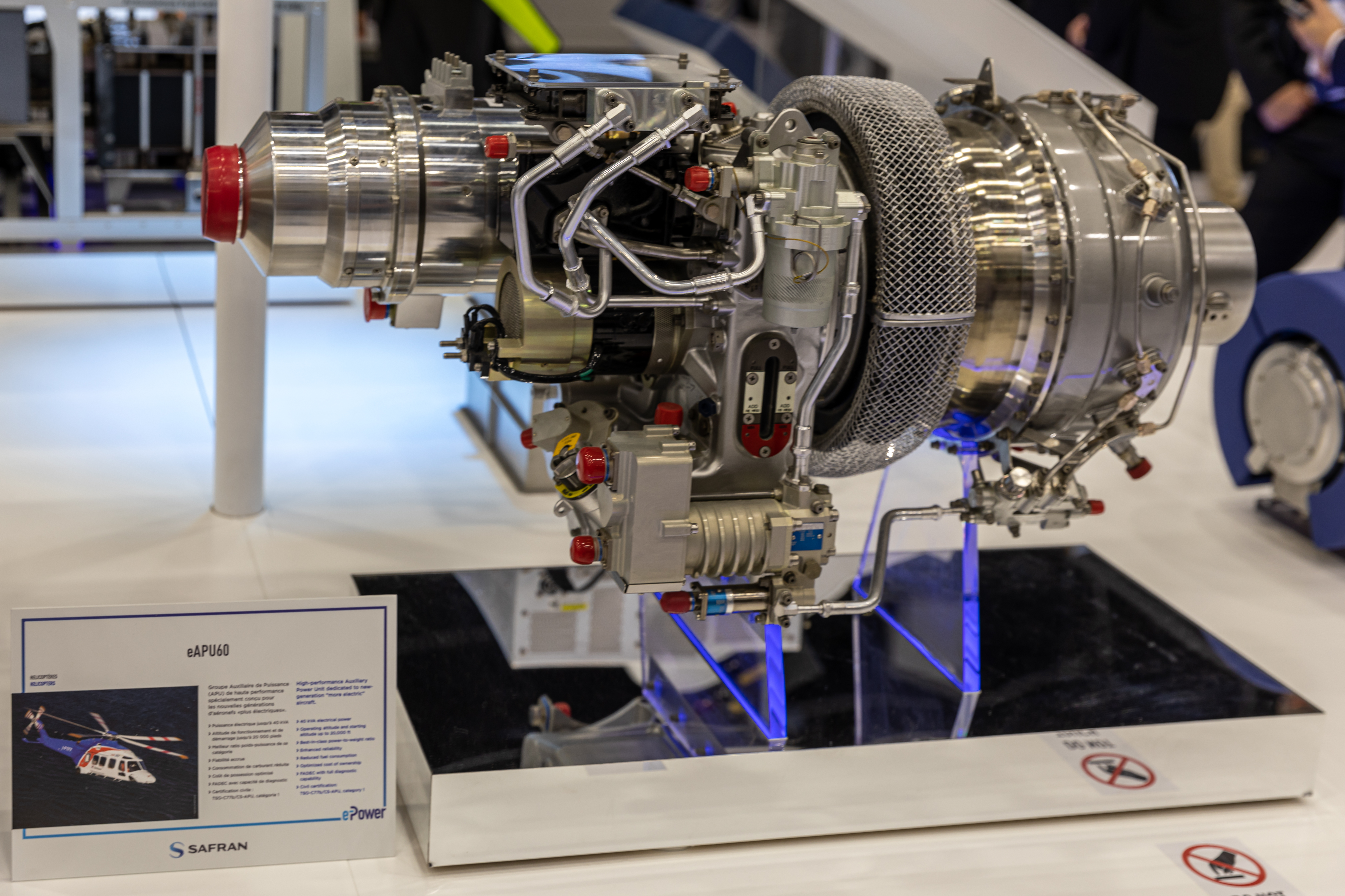 Safran exhibition at Paris Air Show 2019